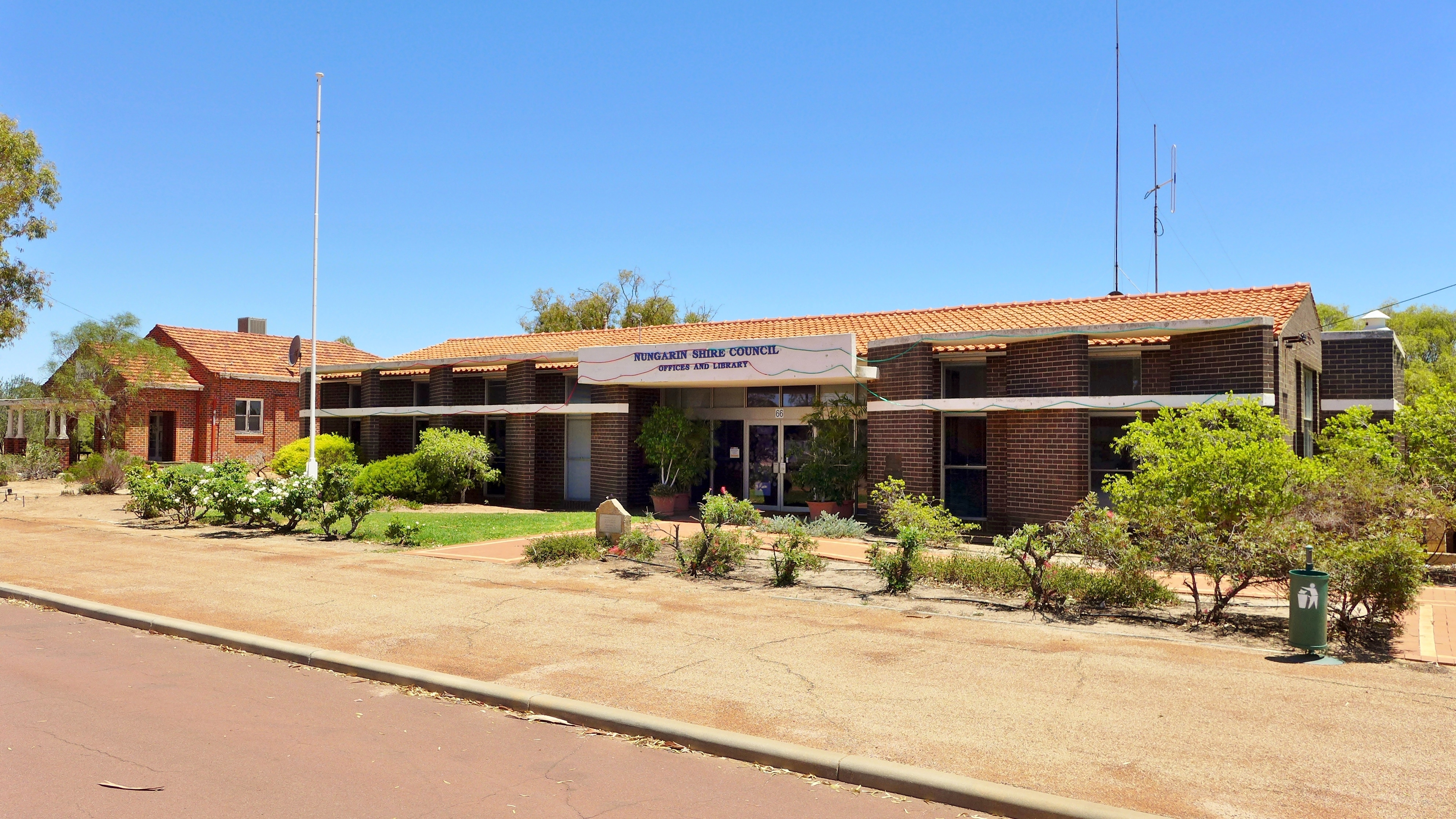 View of the Nungarin shire offices in Railway Avenue, Nungarin, Western Australia.